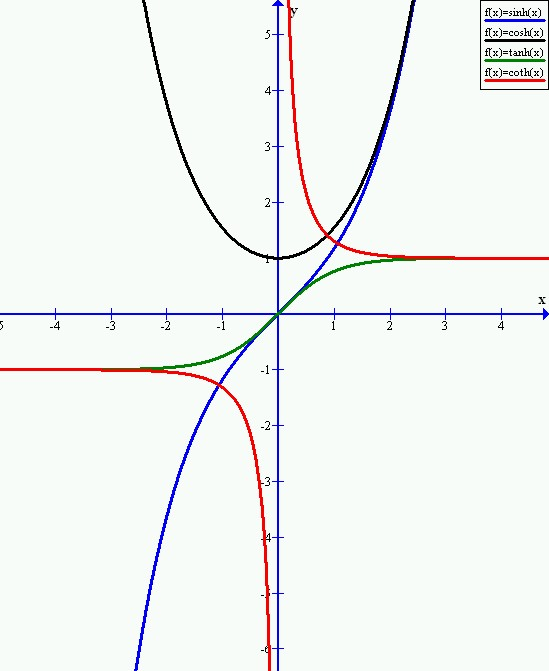 Image shows graphs of hyperbolic functions